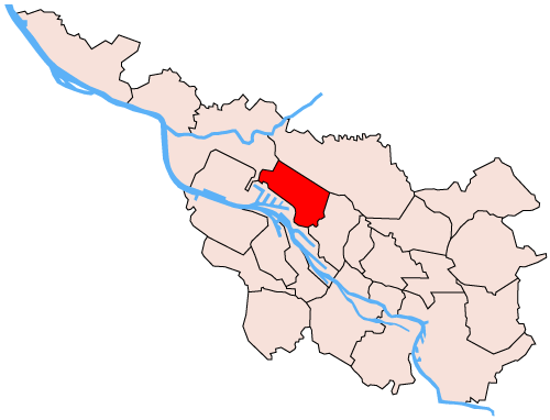 Sub area in bremen, Germany